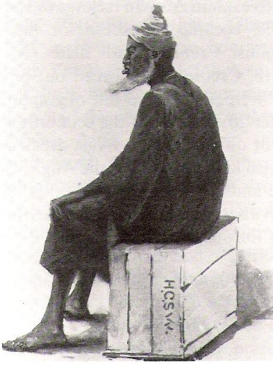 Bai Bureh, leader of the Temnepeople during the Temne-Mande-War 1898, after his capture